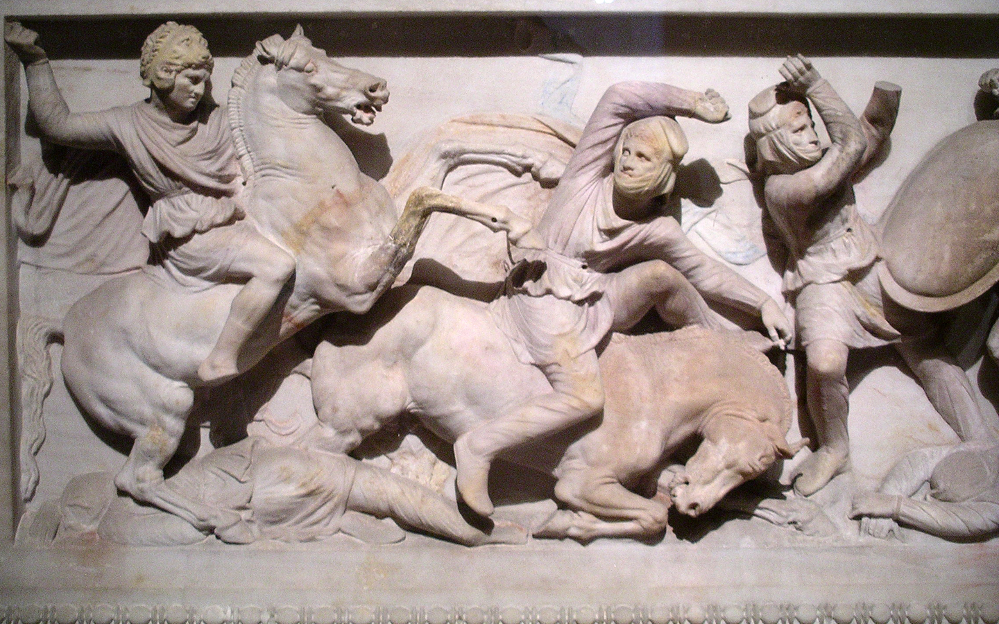 Detail of the Alexander Sarcophagus located in the Istanbul Archaeology Museum. Here Alexander fights the Persians at the Battle of Issus